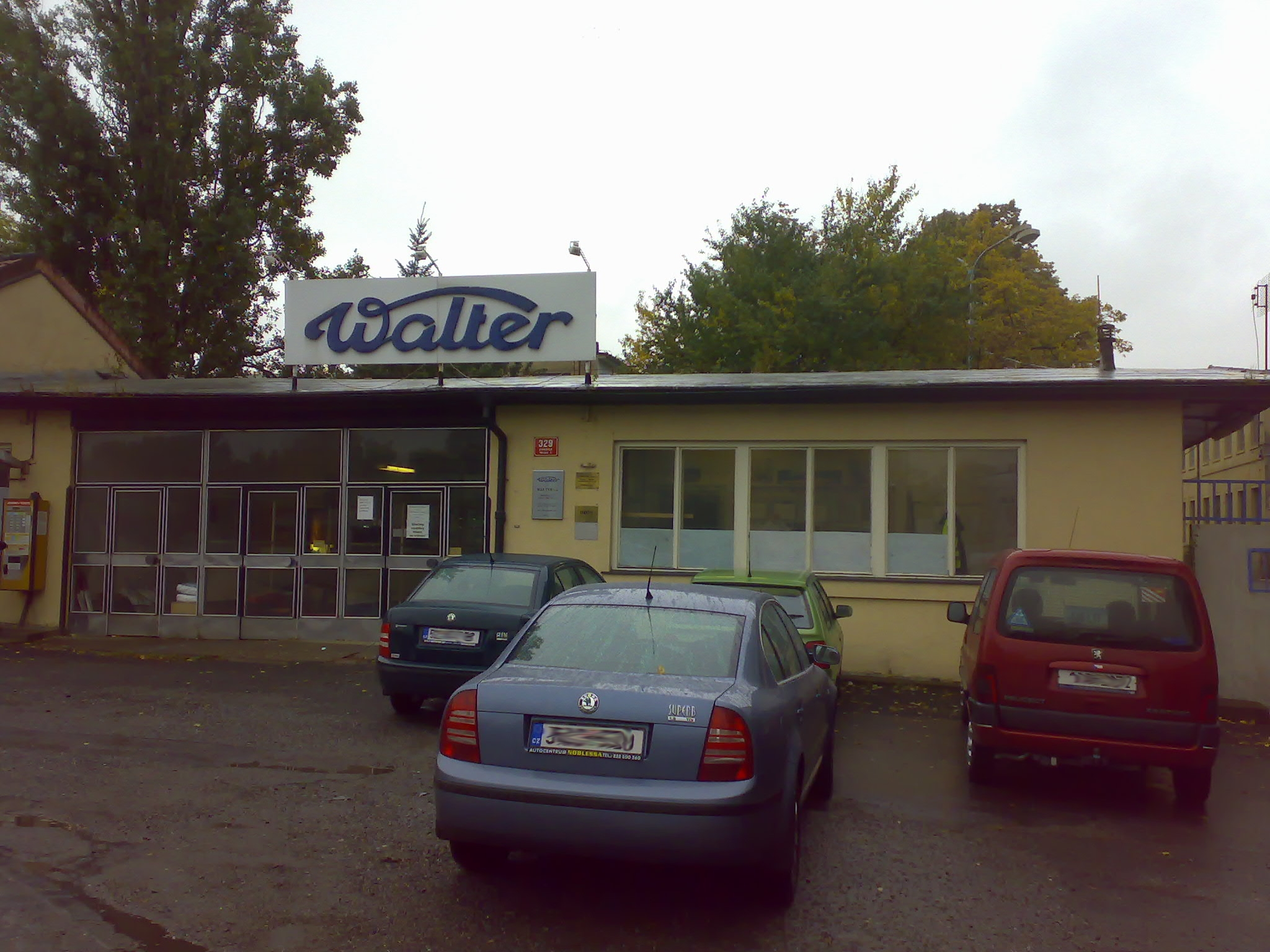 Walter Aircraft Engines entrance